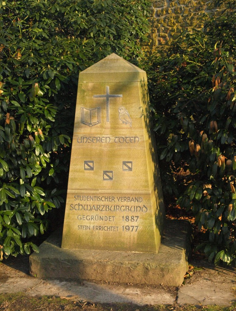 Memorial from Schwarzburgbund (union of student associations in Germany and Austria) at its dead persons